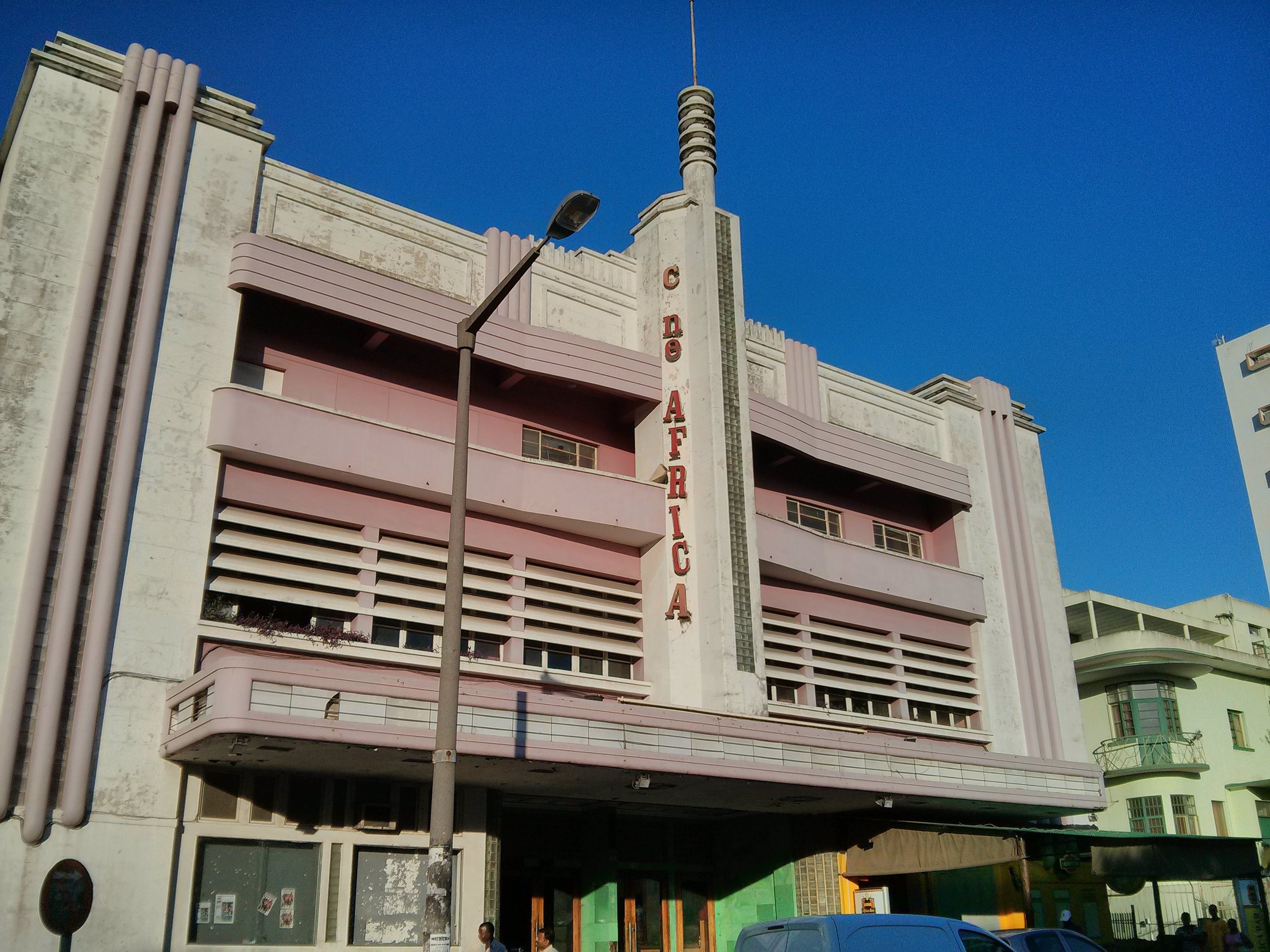 CineAfrica, Maputo, Mozambique